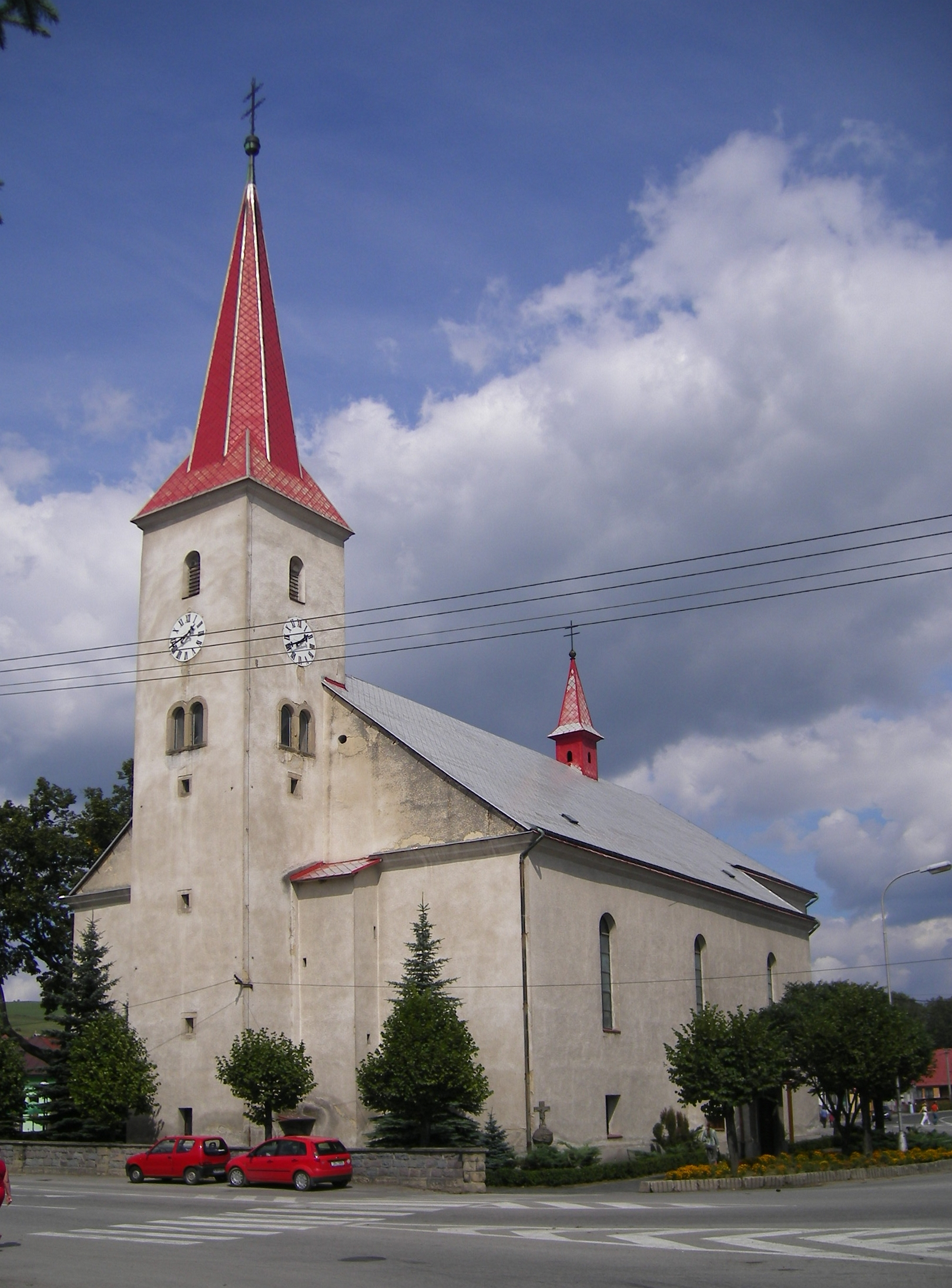 Tvrdošín, Kostol Sv. Trojice (Holy Trinity Church) This medium shows the protected monument with the number 510-254/0 in the Slovak Republic.